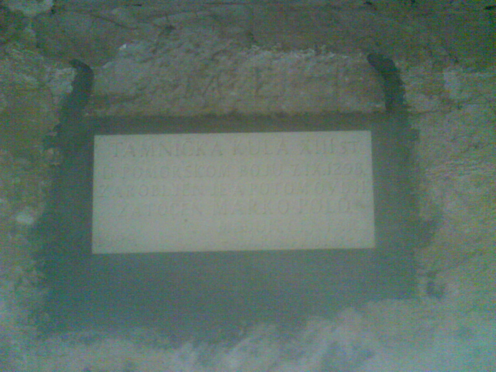 A tower where was emprisoned Marco Polo